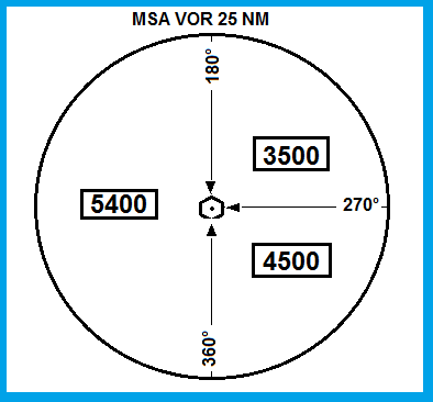 Minimum sector altitude diagram